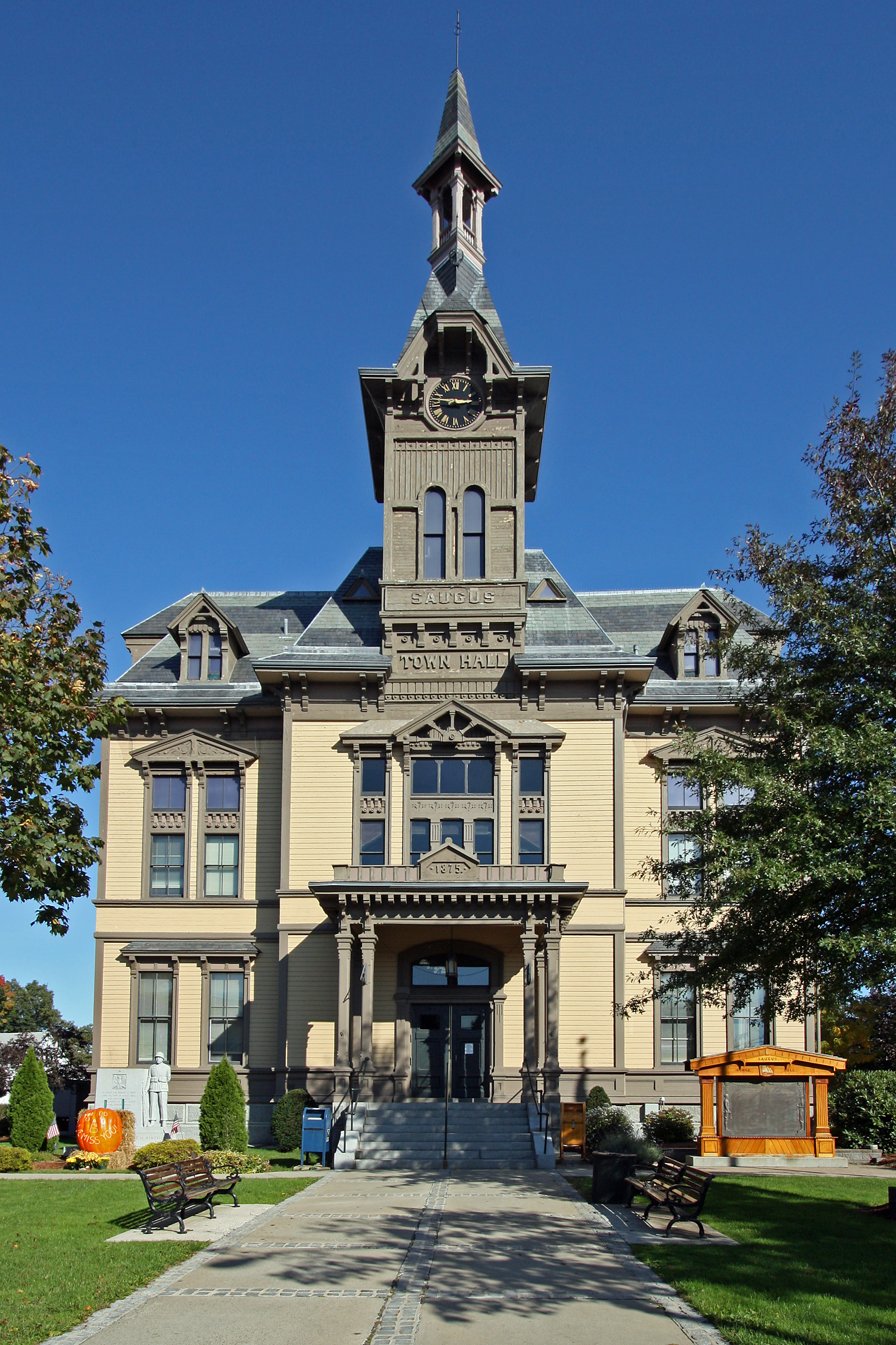 Saugus Town Hall viewed from the front, on a clear sunny fall day.